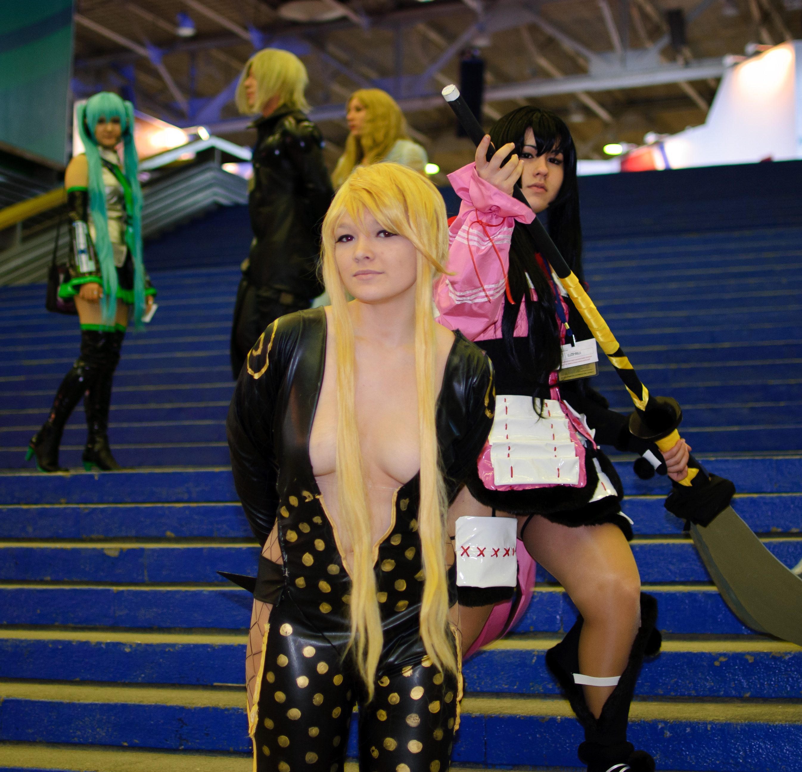 Taken on November 3, 2010 Nikon D40X